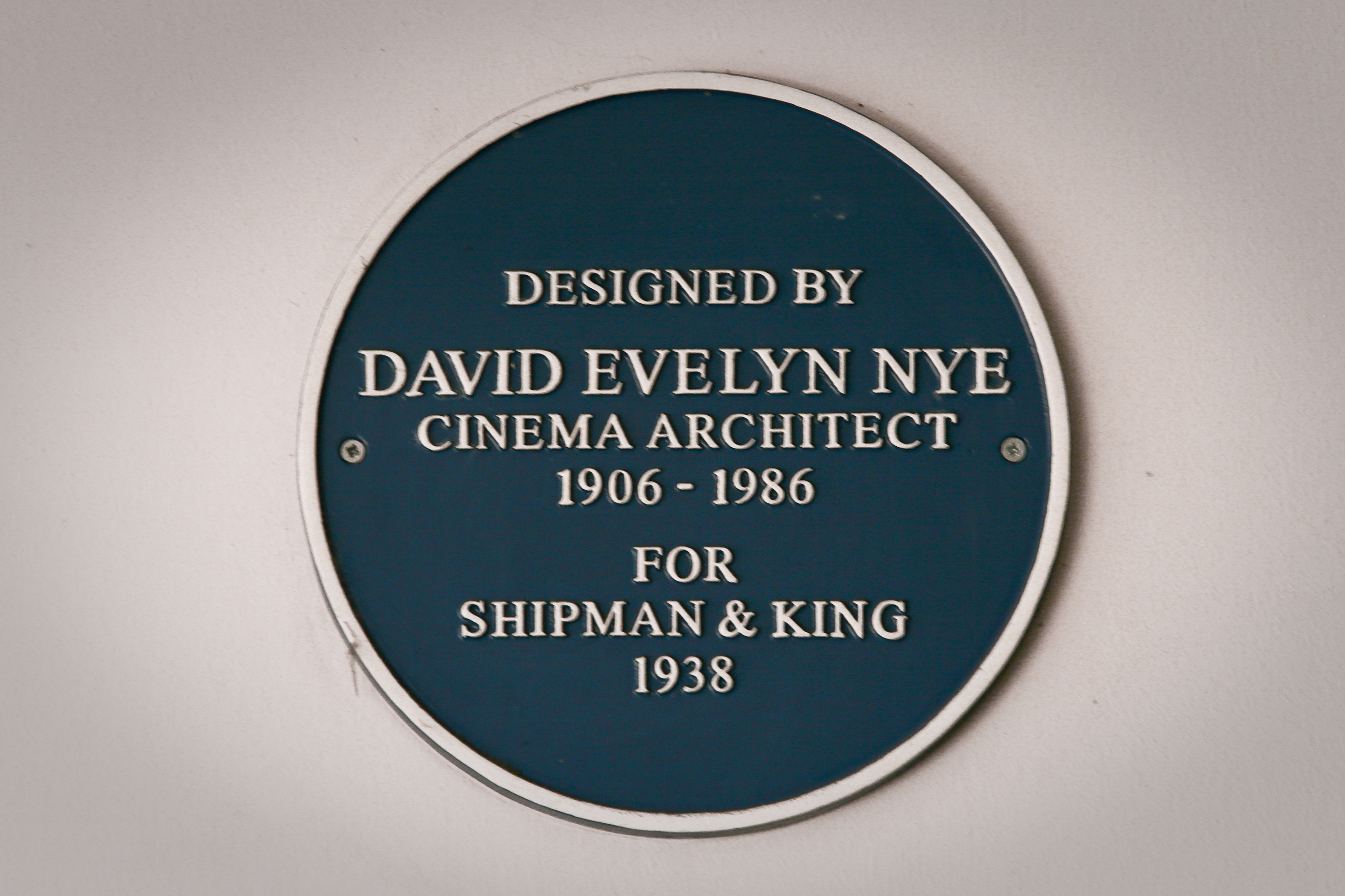 Plaque on the wall of the Rex Cinema, Berkhamsted, commemorating the architect David Evelyn Nye